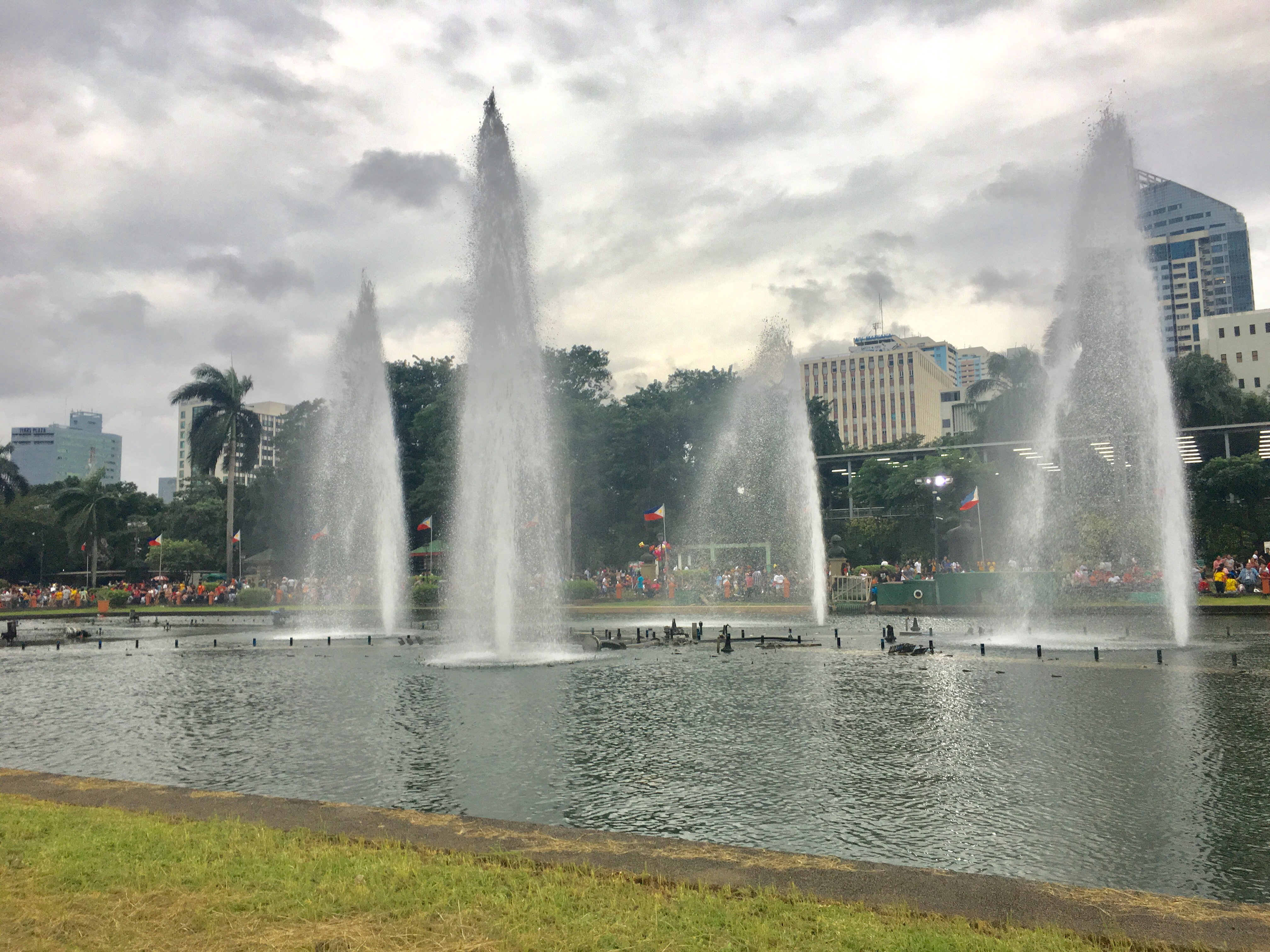 The musical dancing fountain